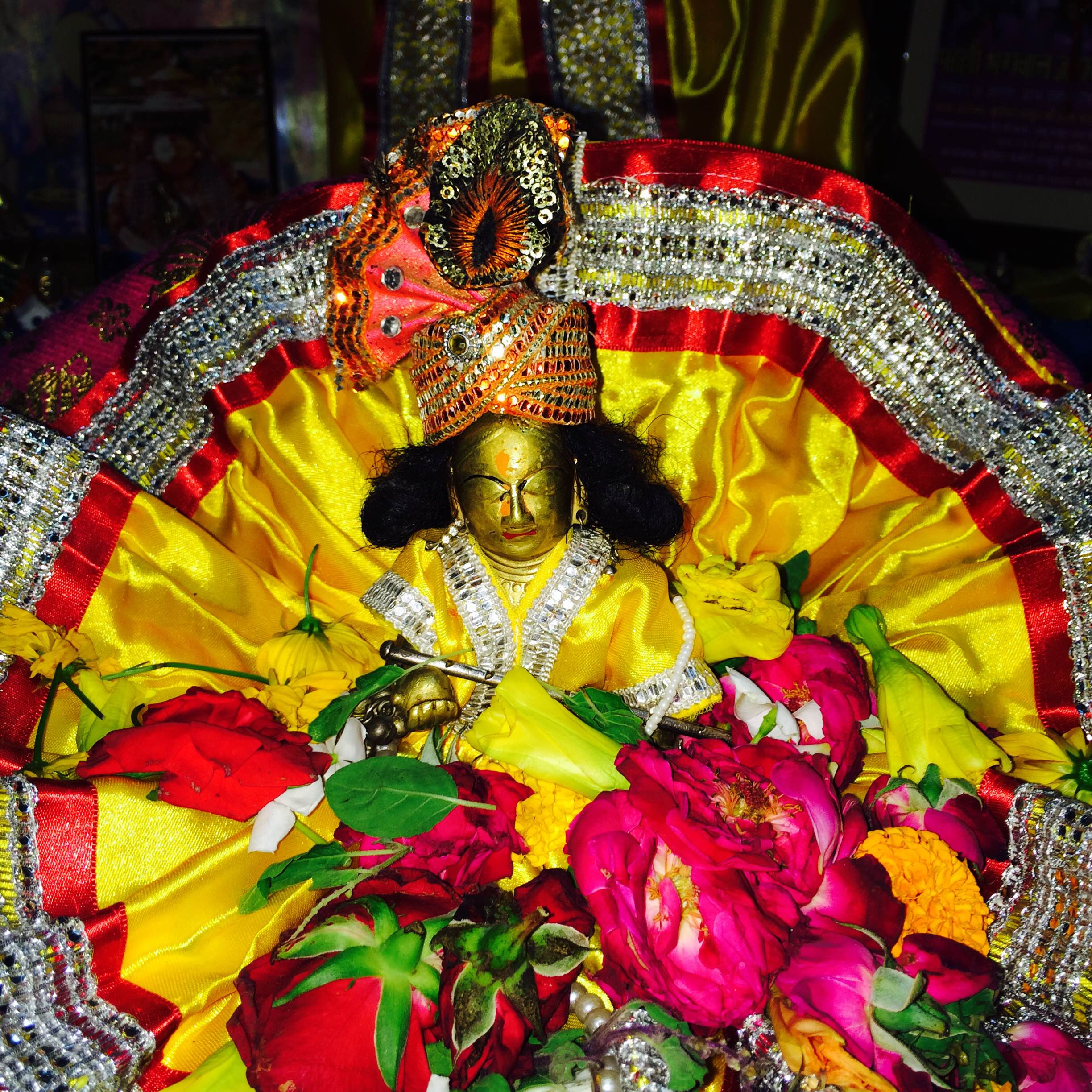 Bal Gopal Ji In Thakur Shri Satynarayan Ji Temple, Nabha